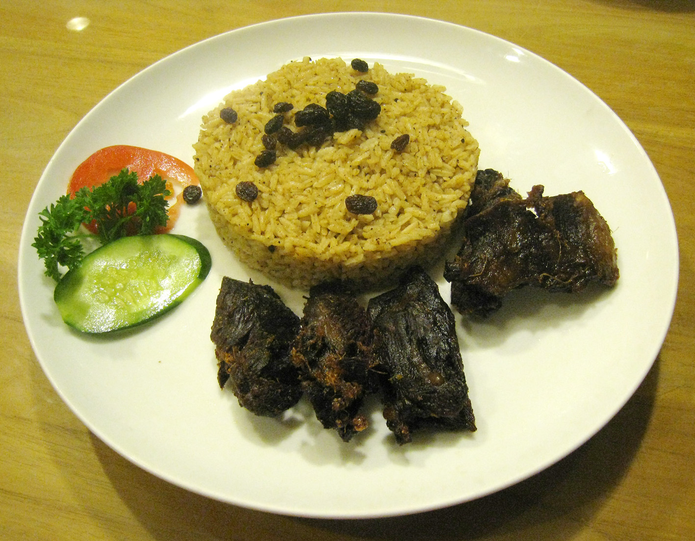 Nasi Kebuli in a restaurant in Jalan Sabang, Central Jakarta. Nasi Kebuli is Betawi (native Jakartans) dish influenced by Indian and Middle Eastern dish. Spiced rice with raisins served with fried goat meats.